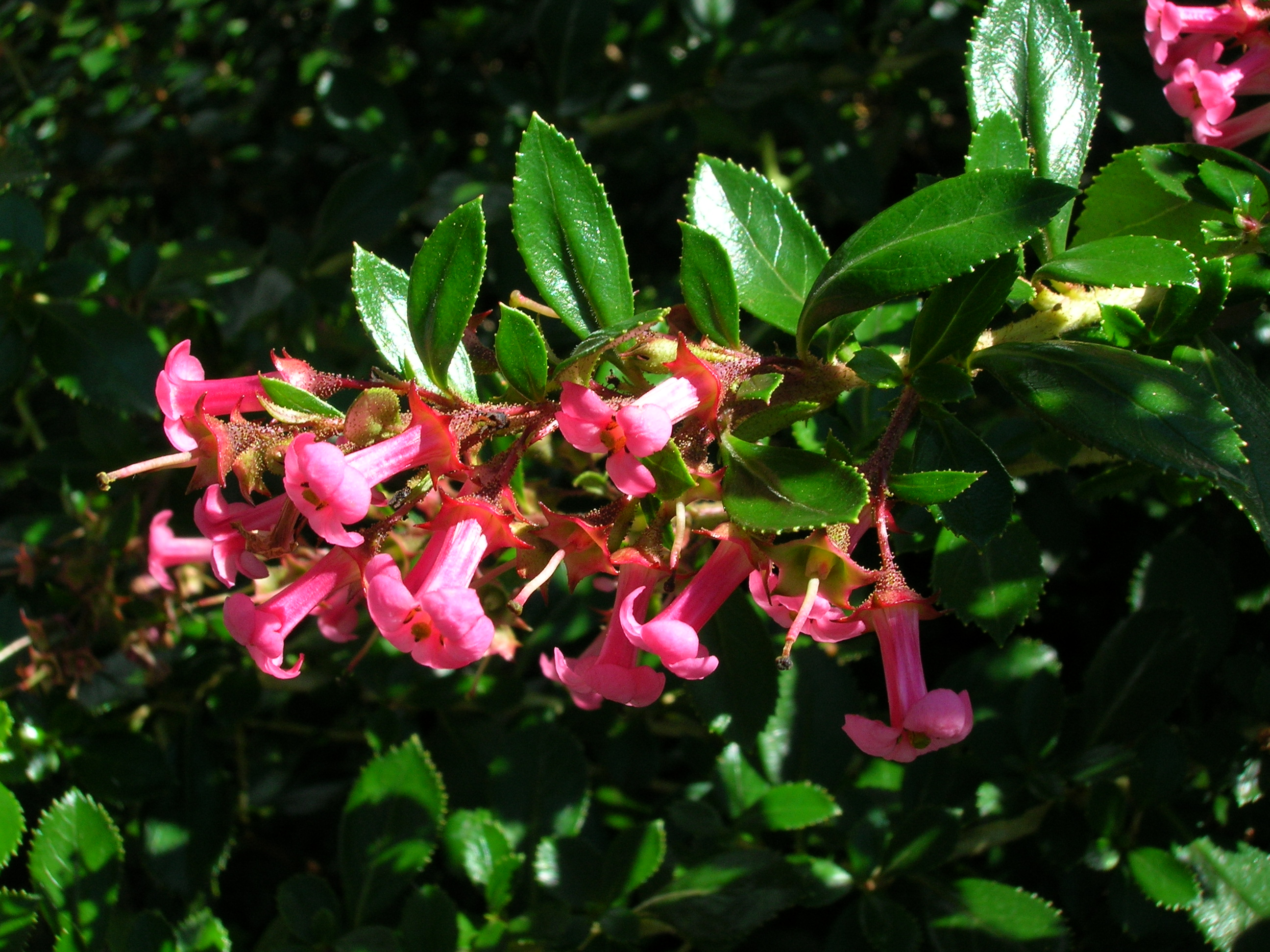 Escallonia rubra var. macrantha (flowers). Location: Maui, Keahuaiwi Gulch